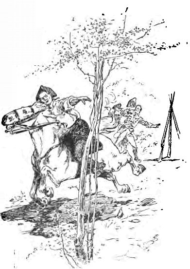 Daniel McGirth's favorite horse was an iron-grey mare that he called “Grey Goose”. At Satilla, Georgia, a militia lieutenant, Clarke Christie, coveted the horse, and offered McGirt a lieutenant's commission, but he was refused. Not being able to get the horse by other means, Christie swore that he would have her by force. The threat led to a confrontation in which Daniel either struck the officer or threatened to do so. For this he was court-martialed and found guilty of striking an officer, a very serious offense, then publicly whipped with ten lashes and confined in the local jail. By the terms of his sentence, a second whipping was subsequently to be inflicted. Stung by this disgrace, McGirt determined to escape, and succeeded by dislodging the window bars of his cell with a broken trowel probably passed to him by a guard. Mounting “Grey Goose”, who happened to be tethered nearby, he dashed away, turning in his saddle as he rode off to hurl threats of vengeance.(The War for Independence and the Transformation of American Society: War and Society in the United States, 1775-83, by Harry M. Ward, p. 78